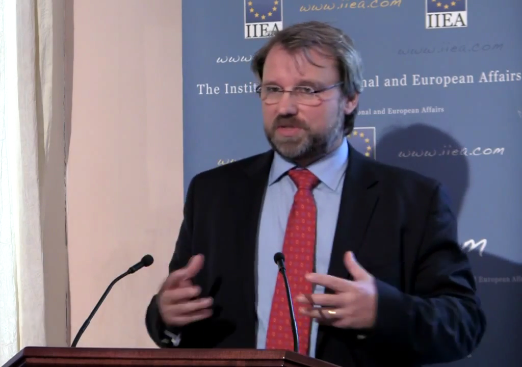 Economics journalist Wolfgang Münchau 2013 in a IIEA lecture in Dublin